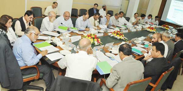 Mr. Mumtaz Kahloon presiding over a NAVTTC board meeting.